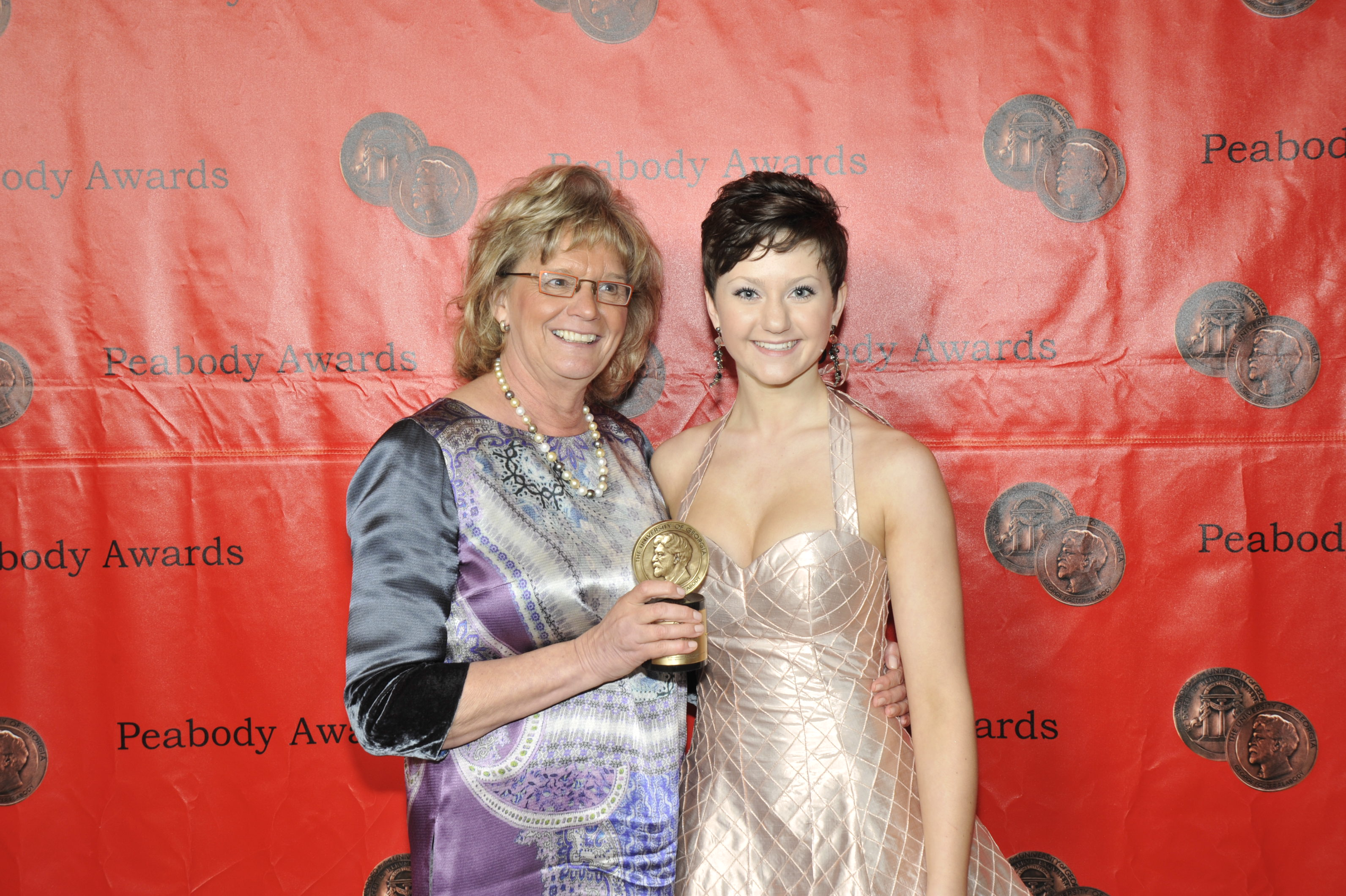 PHOTO CREDIT: ANDERS KRUSBERG / PEABODY AWARDS Jordan Todosey and Linda Schuyler with the award for Degrassi: My Body is a Cage 70th Annual Peabody Awards Luncheon Waldorf=Astoria Hotel May 23, 2011